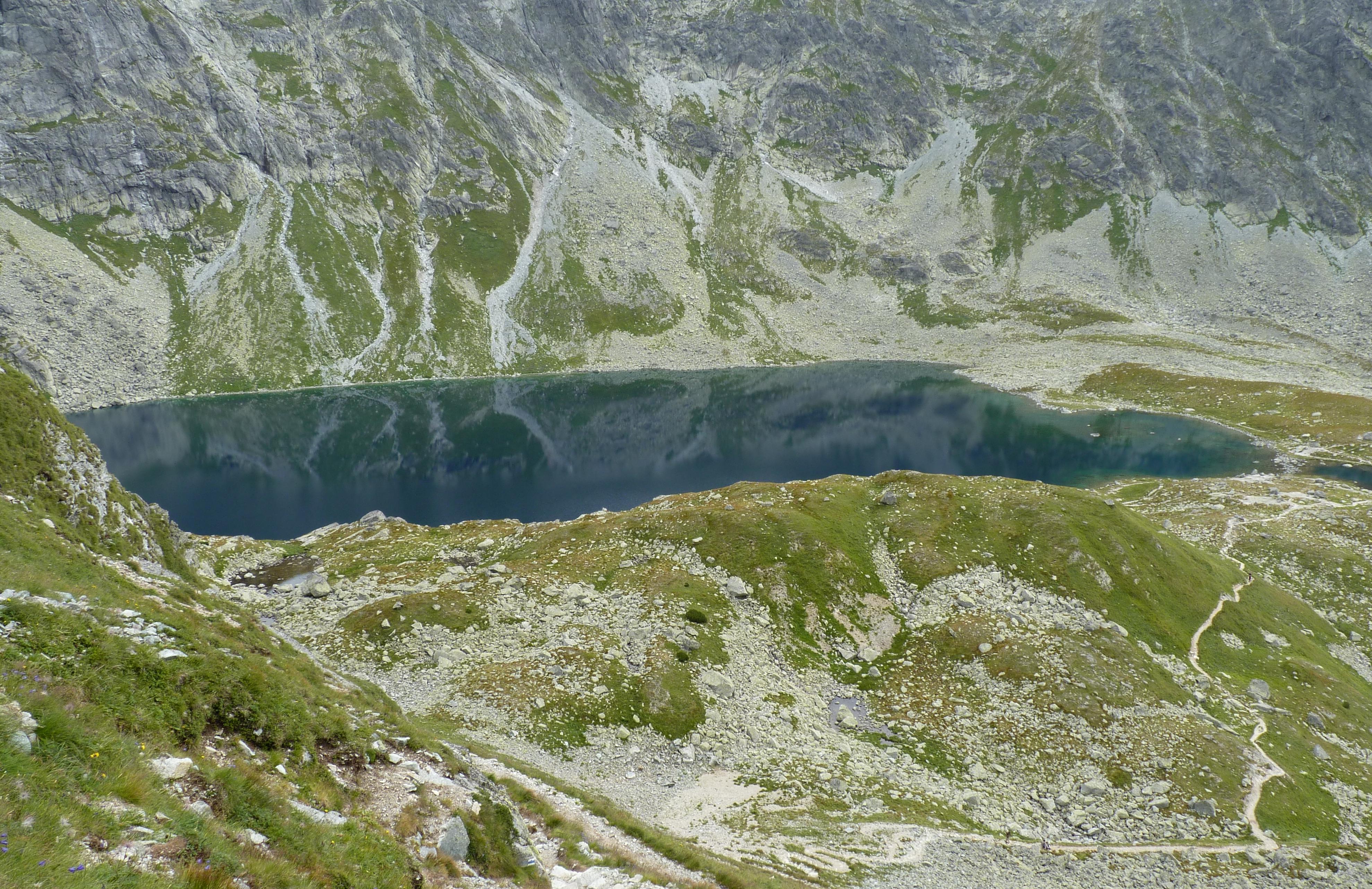 Veľké Hincovo pleso. Mengusovská Valley, Tatra Mountains, Slovakia